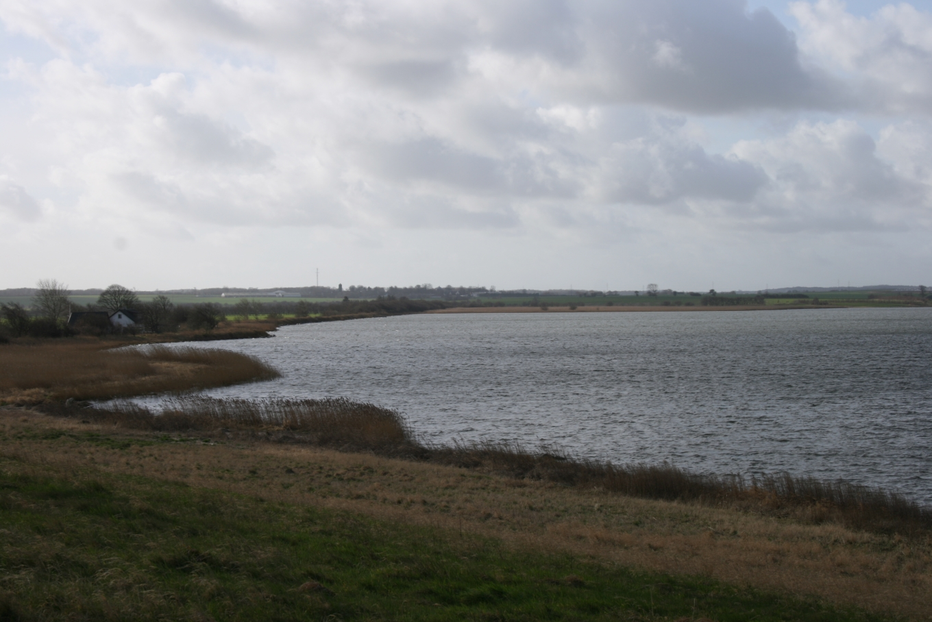 Norsminde fiord in eastern Jutland